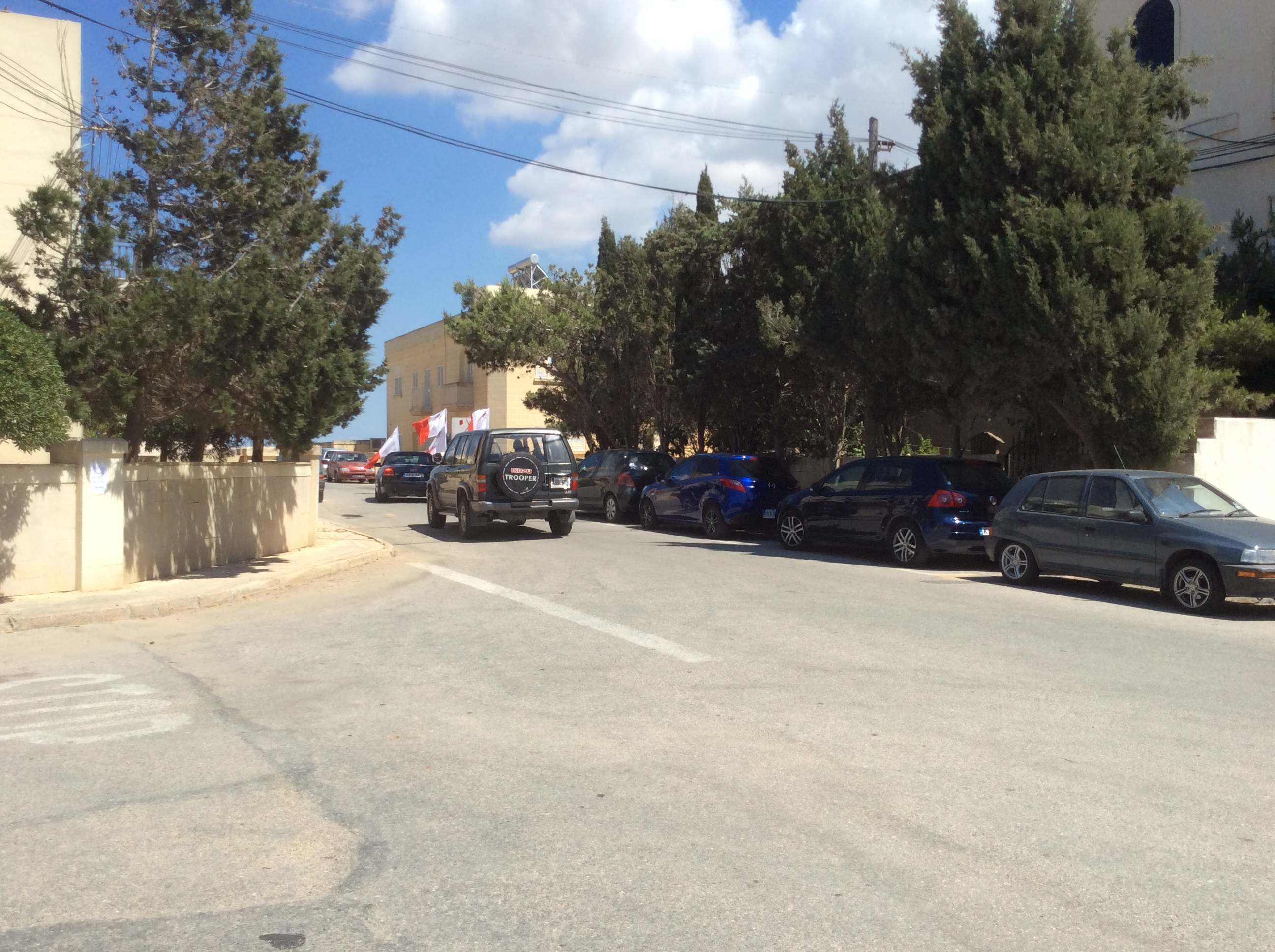 Mgarr